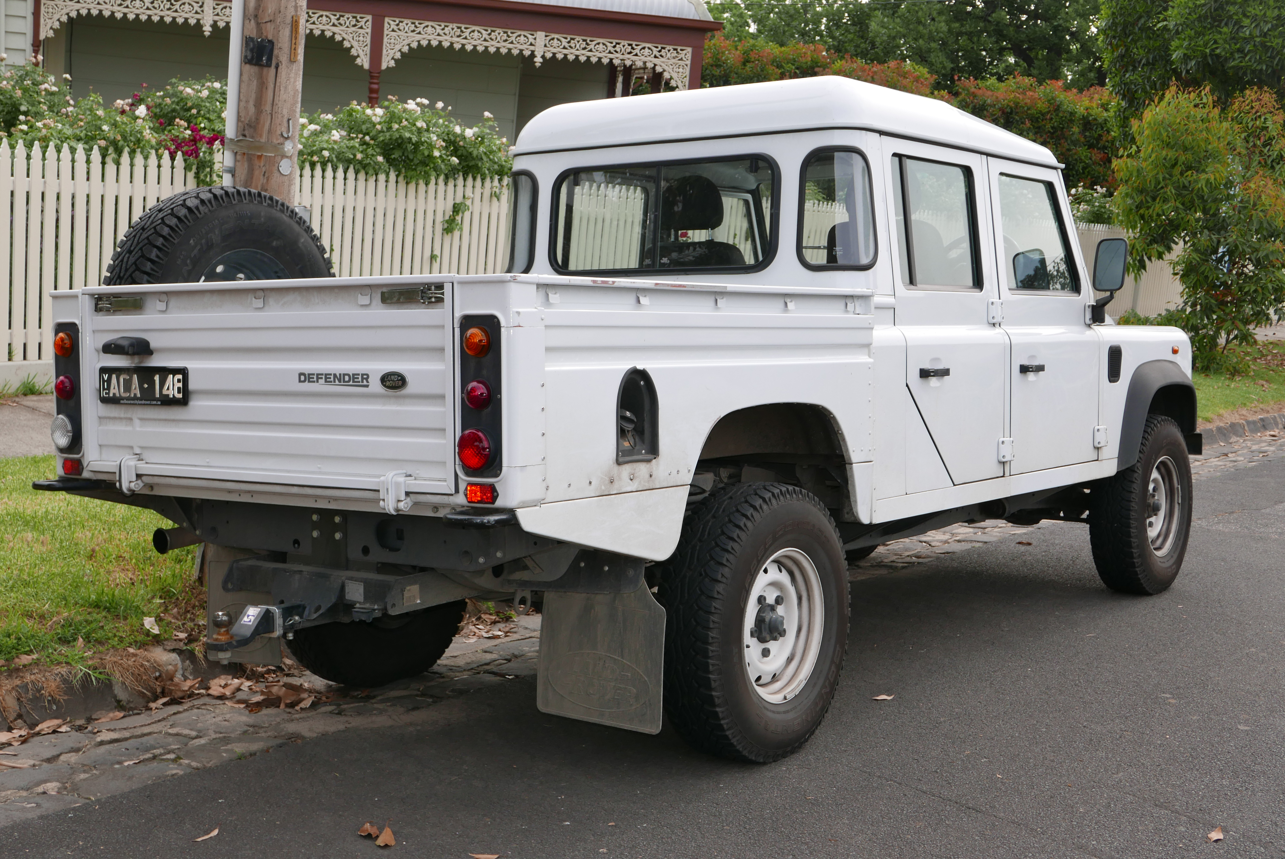 2013 Land Rover Defender (L316 MY13) 130 4-door utility. Photographed in Ascot Vale, Victoria, Australia. Vehicle registration enquiry results Jurisdiction Victoria Registration ACA148 Chassis code SALLDKXR7DA435093 Engine code 130223045022DT224 Compliance date 2013-05 Year of manufacture 2013